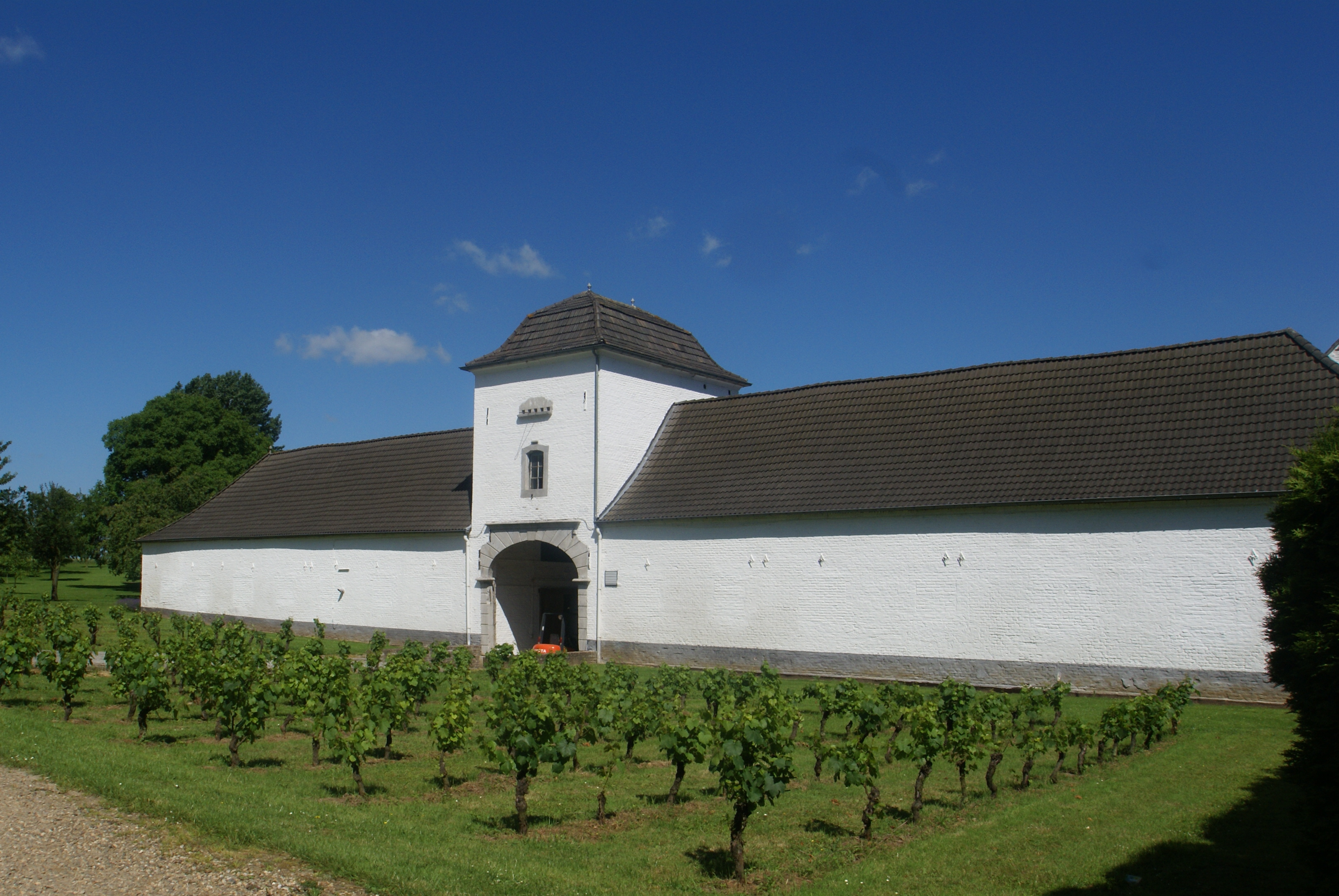 Genoelselderen (Belgium): Farm